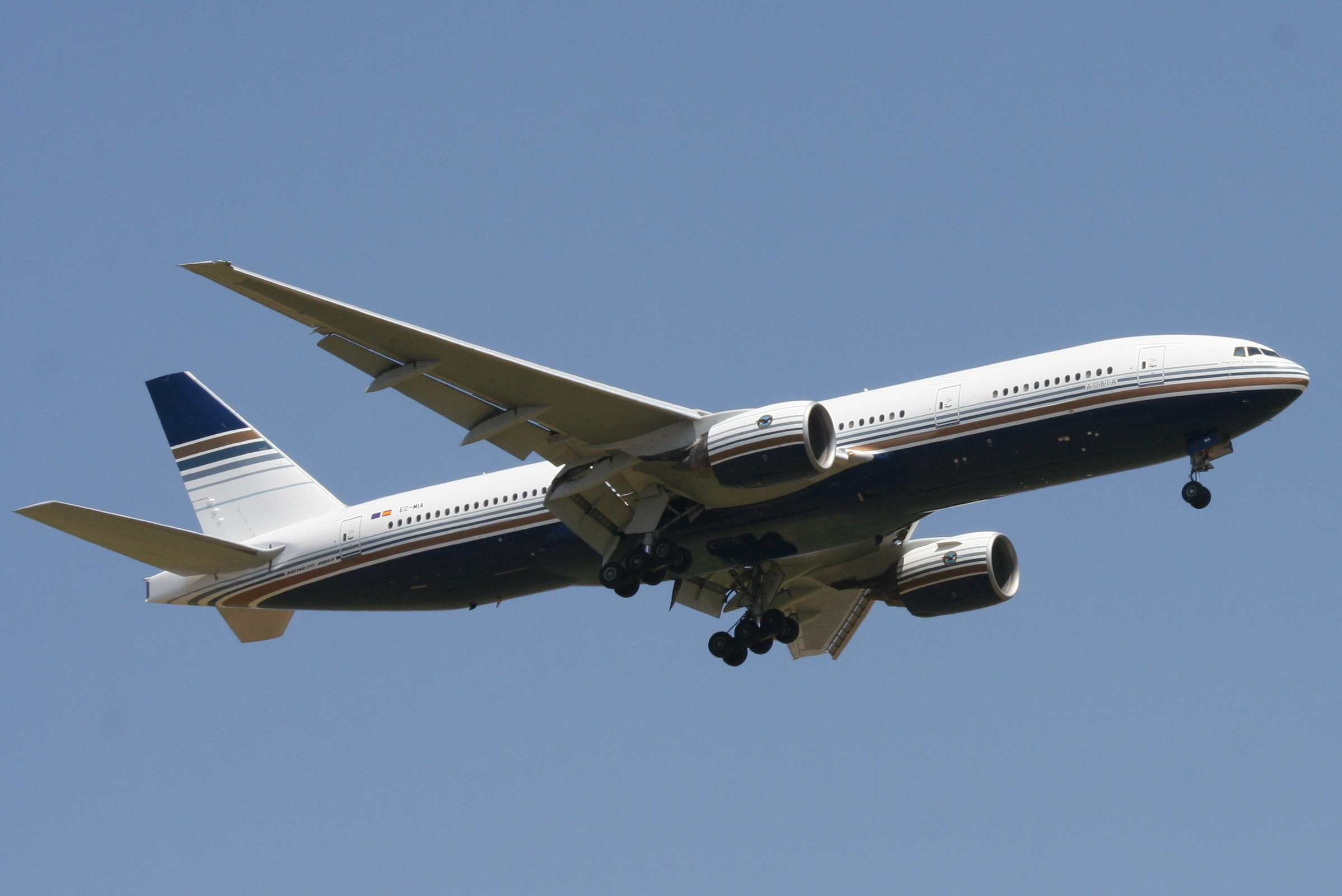 EC-MIA landing at Ben Gurion International airport.